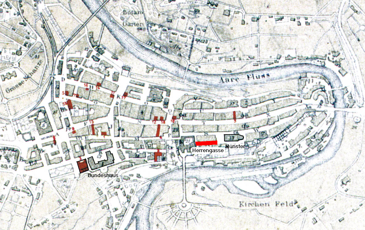 City plan of Bern, 1882. Scanned from BERN: Eine Stadt vor 100 Jahren, Bilder und Berichte; Peter Lauenberger, Emil Erne; München 1997; p. 7. Originally from Bern und seine Umgebungen, C.H. Mann, 1882 in the Alpines Museum of Bern. Due to the age of the image, it must be assumed that the author has been dead for more than 70 years. Copyright protection has therefore lapsed under Swiss copyright law (Art. 29 par. 3 URG).